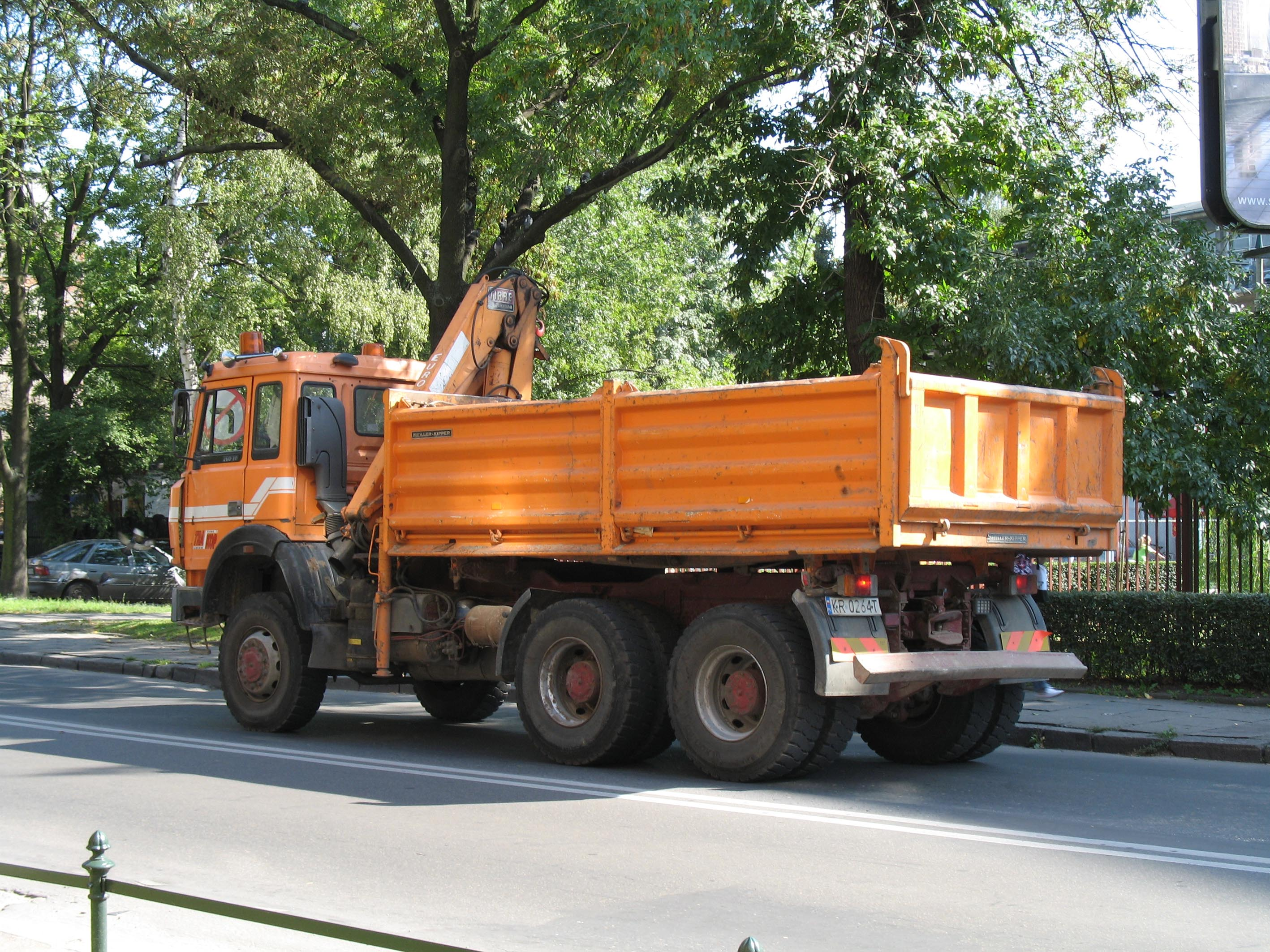 Iveco 260.30 Turbo 6x6 truck in Kraków, Poland - rear.